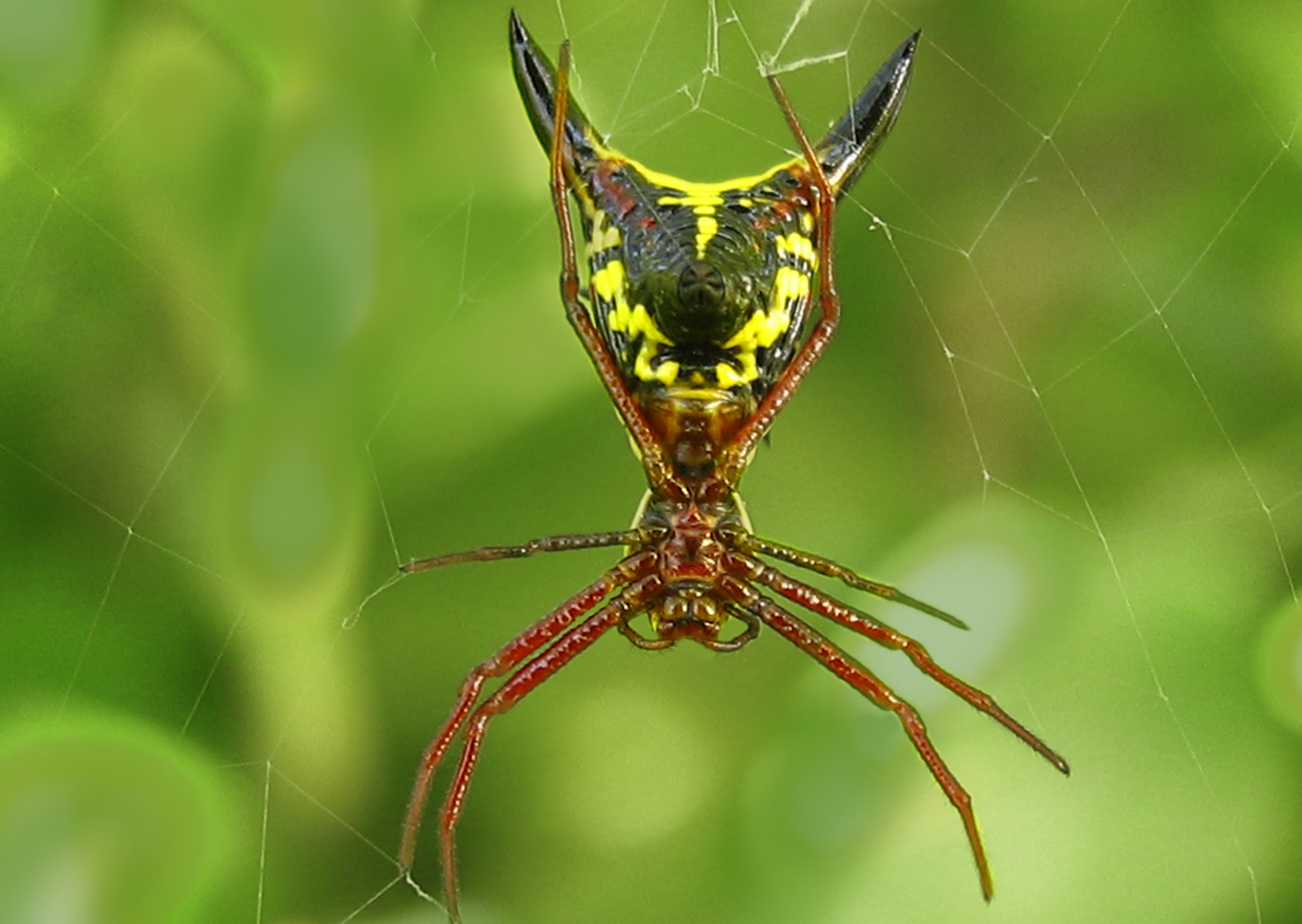 Woodland Orbweaver